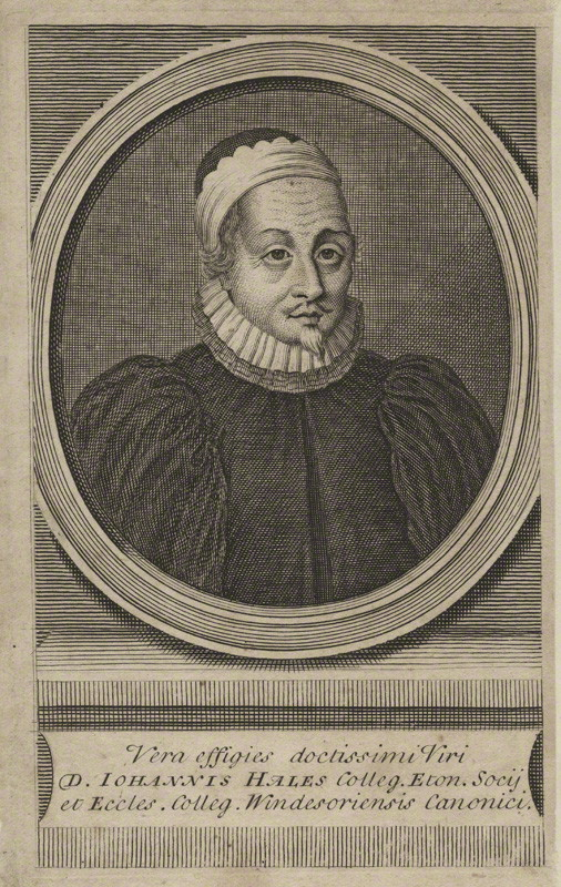 Theologican and classical scholar John Hales; line engraving after Unknown artist, 1716; 6 1/4 in. x 3 5/8 in. (160 mm x 92 mm) paper size; Given by the daughter of compiler William Fleming MD, Mary Elizabeth Stopford, 1931; NPG D26782